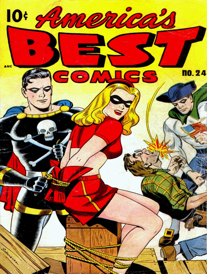 America's Best Comics #24, December 1947